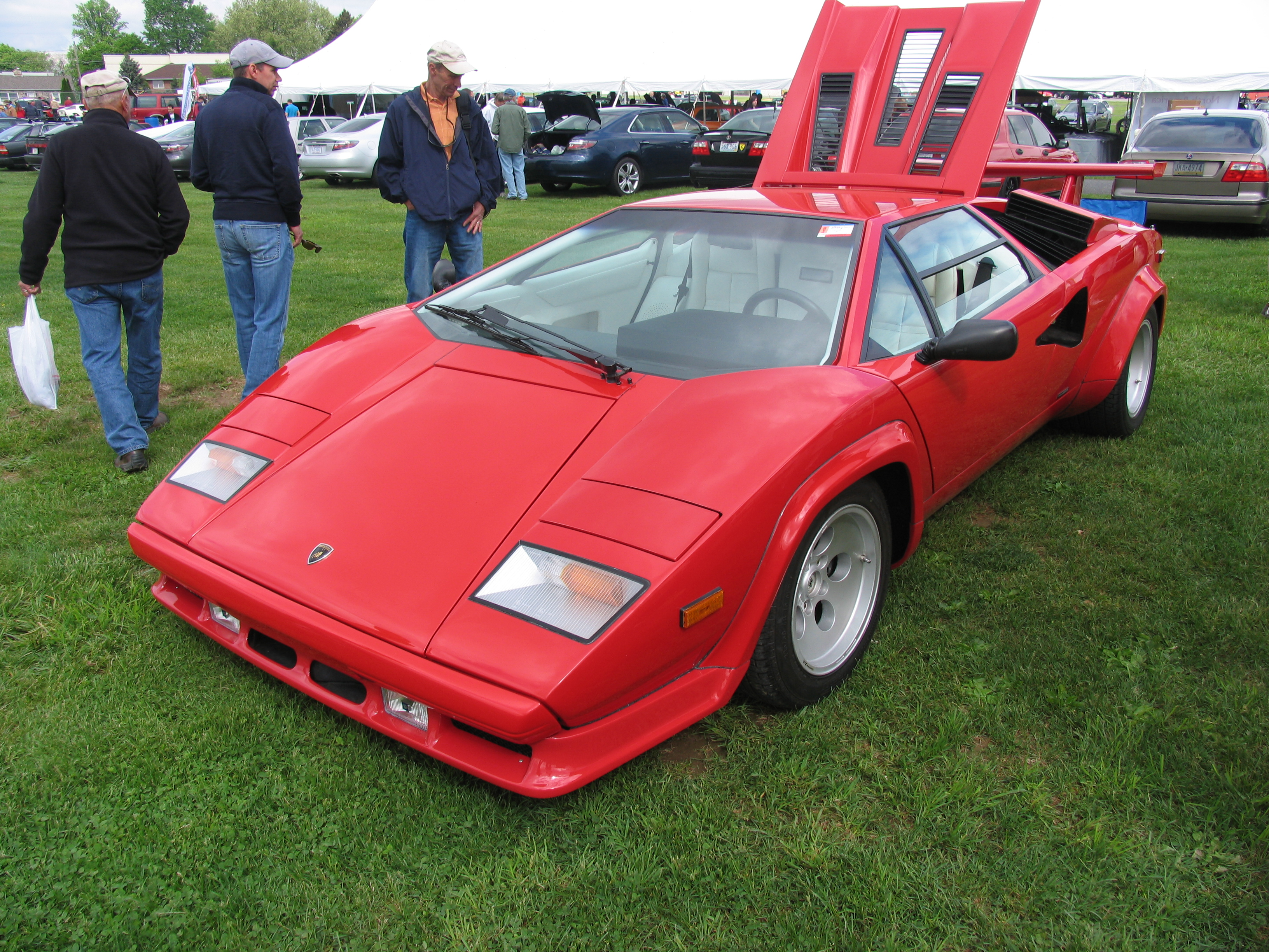 Lamborghini Countach LP5000 QV